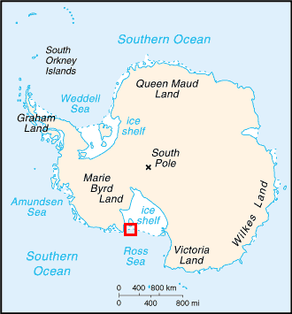 The location of the Bay of Whales, Ross Sea, Southern Ocean, Antarctica.